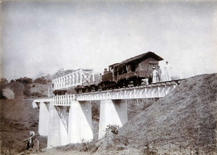 Transport by locomotive over a railway bridge